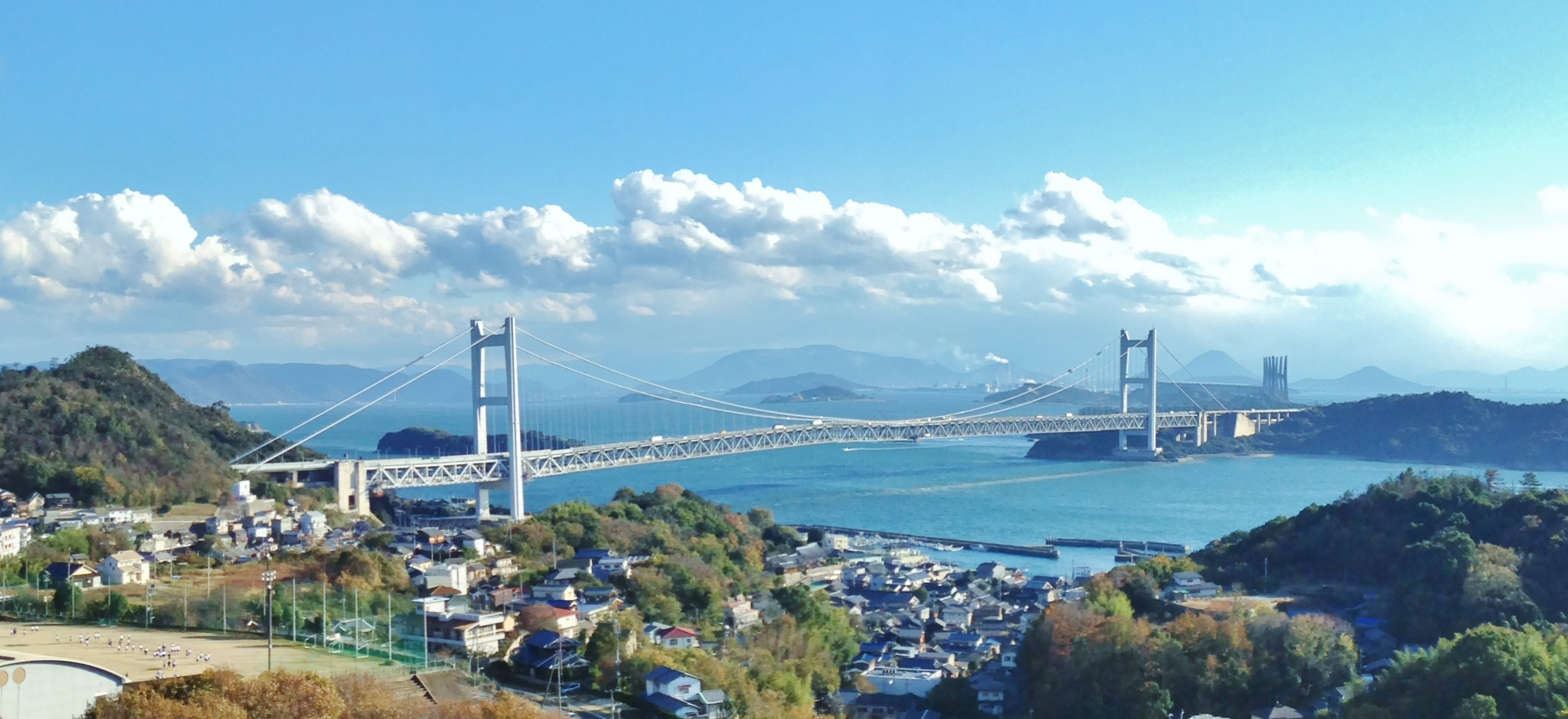 Setonaikai National Park, Great Seto Bridge